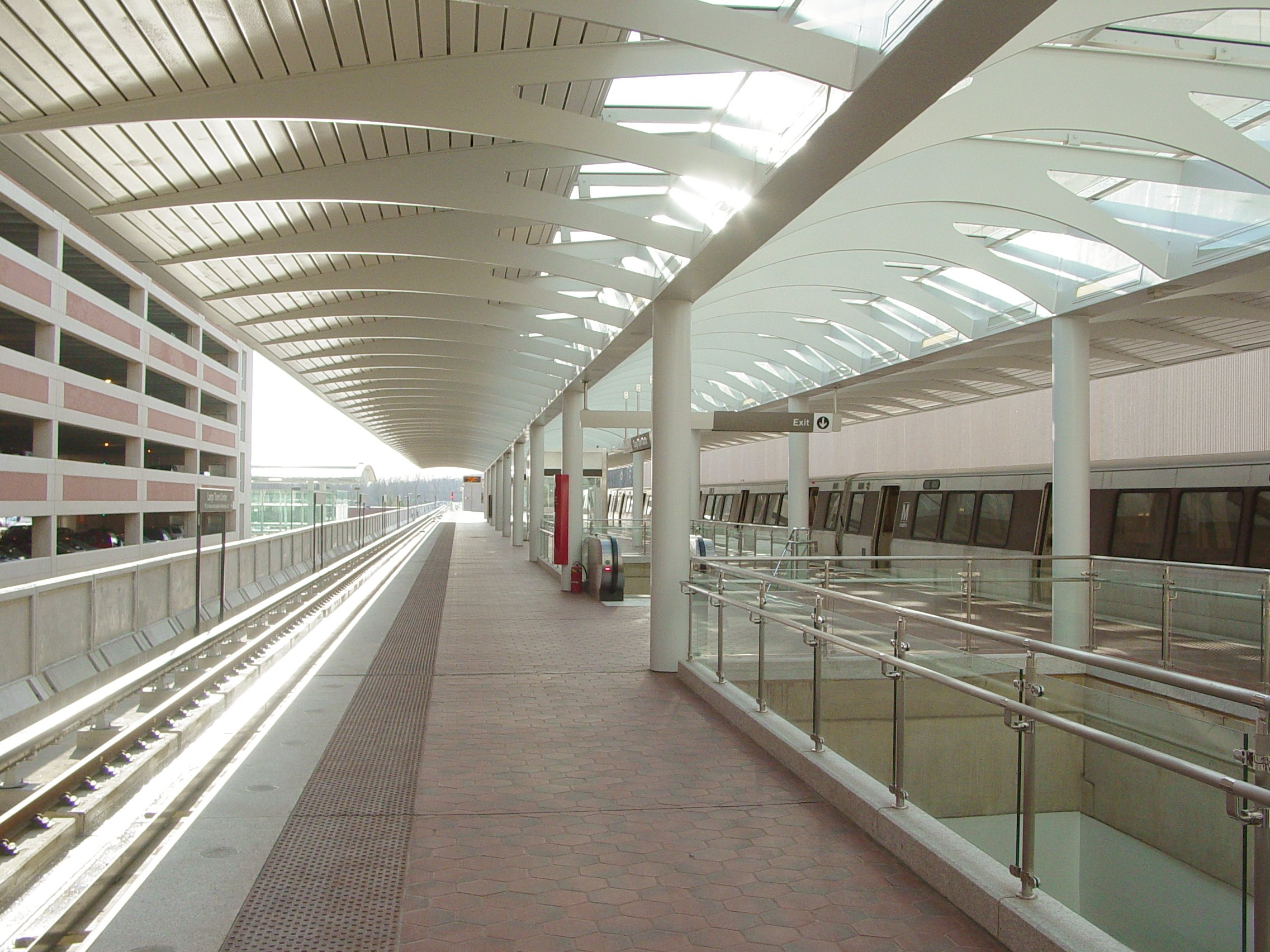 Largo Town Center Metro station, at the eastern end of the Blue Line (Washington DC)